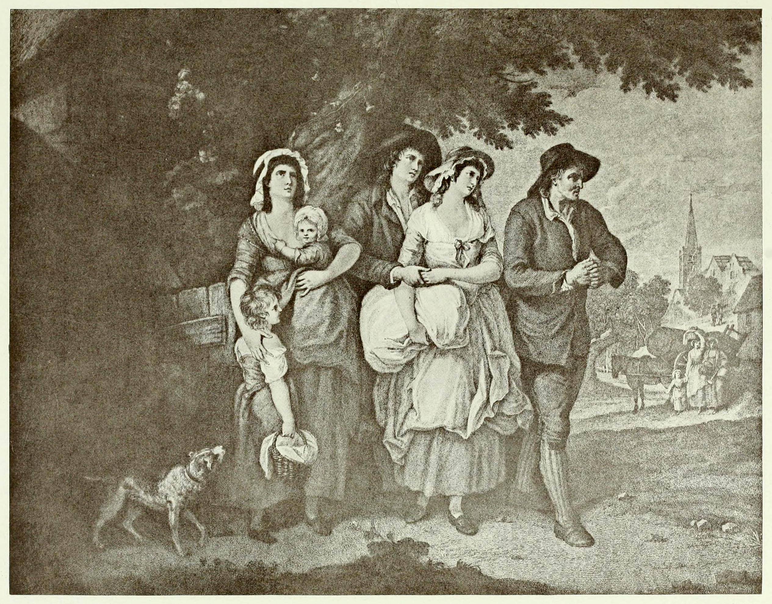 The Deserted Village, an engraving by Francesco Bartolozzi after a painting by Francis Wheatley.